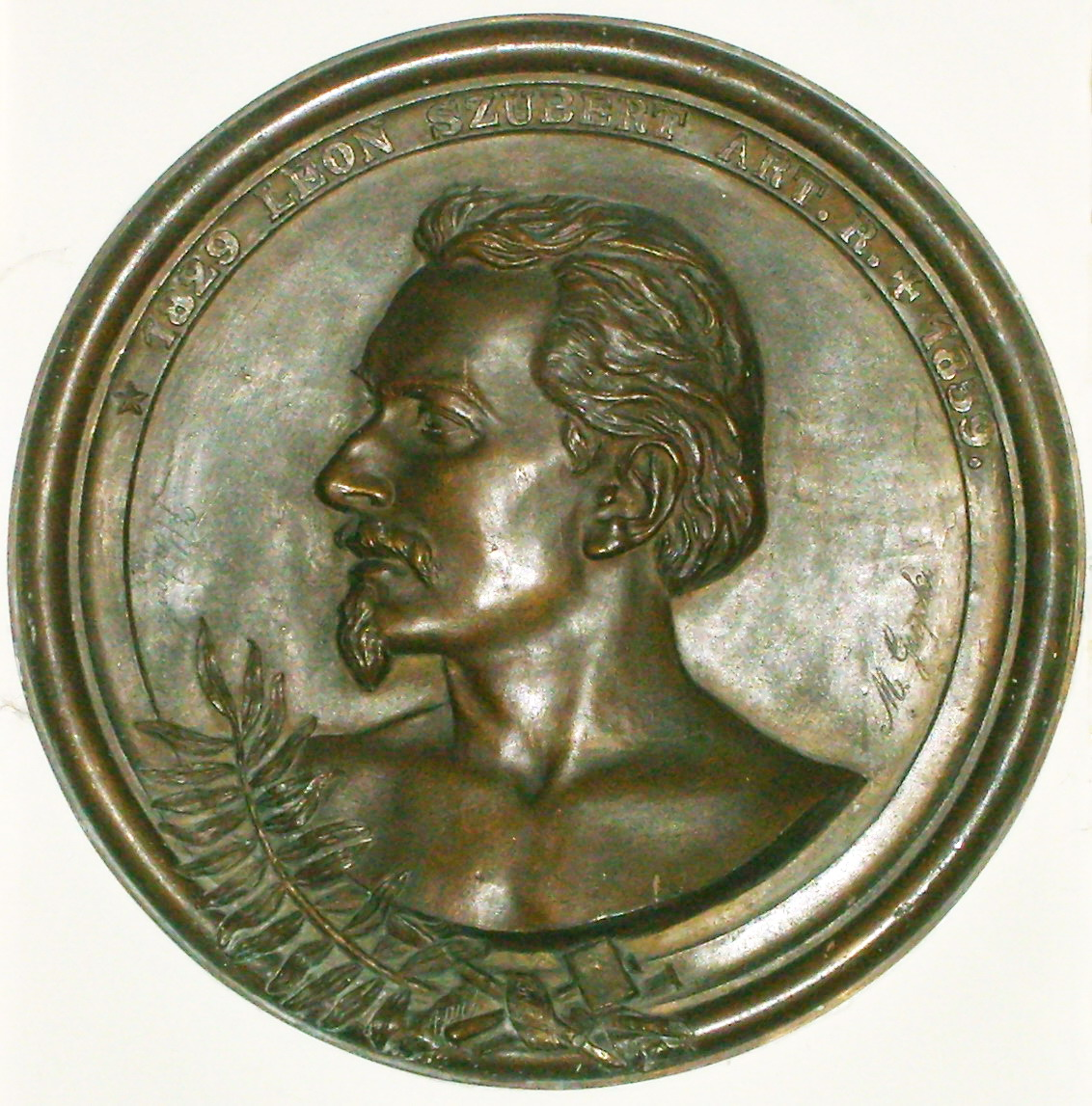 A bas-relief of Leon Szubert’s bust inside the parish church dedicated to the Assumption of the Blessed Virgin Mary in Oświęcim.